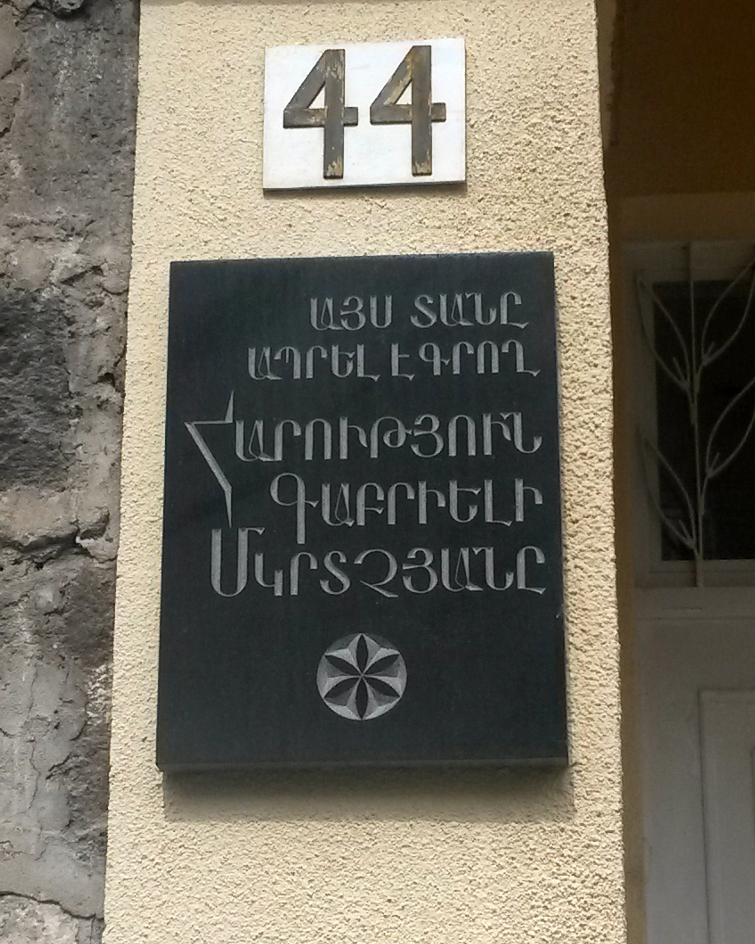 Harutyun Mkrtchyan's plaque